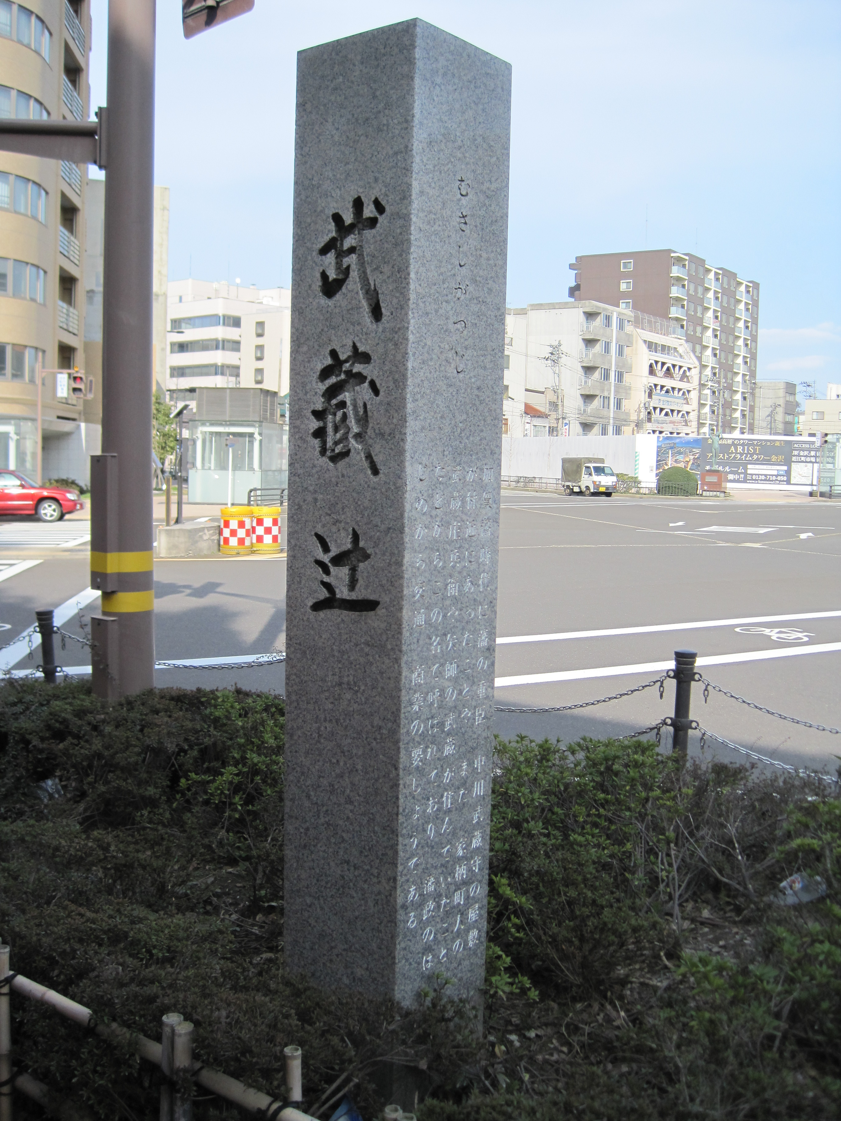 Musashigatsuji_Memorial(Kanazawa city, Ishikawa prefecture, Japan)